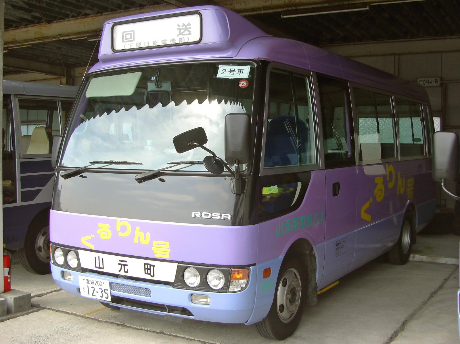 Gururingo (Yamamoto_Town,Miyagi)